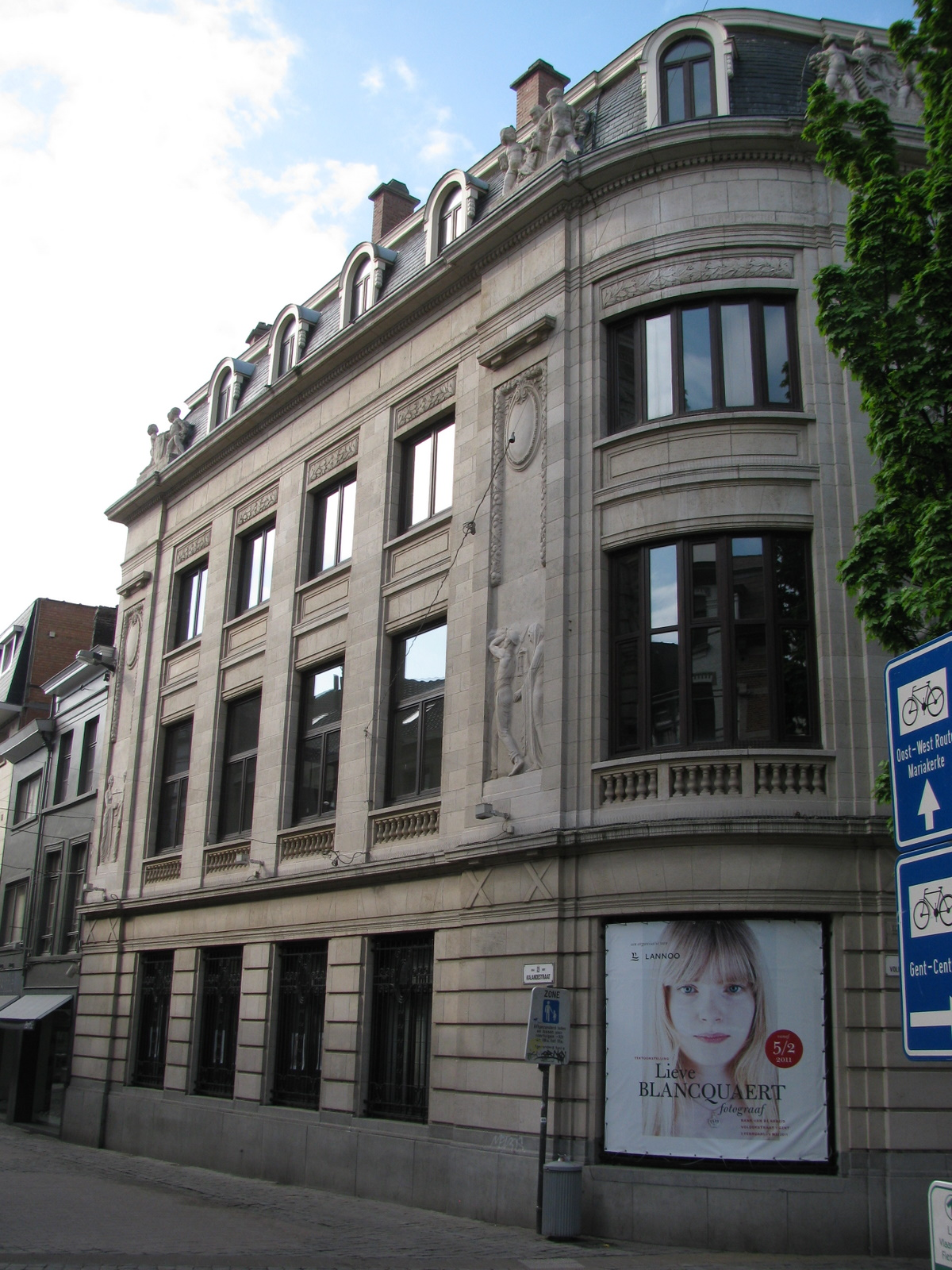 Ghent, on 2011-04-17